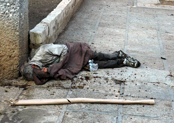 Drunks are everywhere in the world, on Cuba too